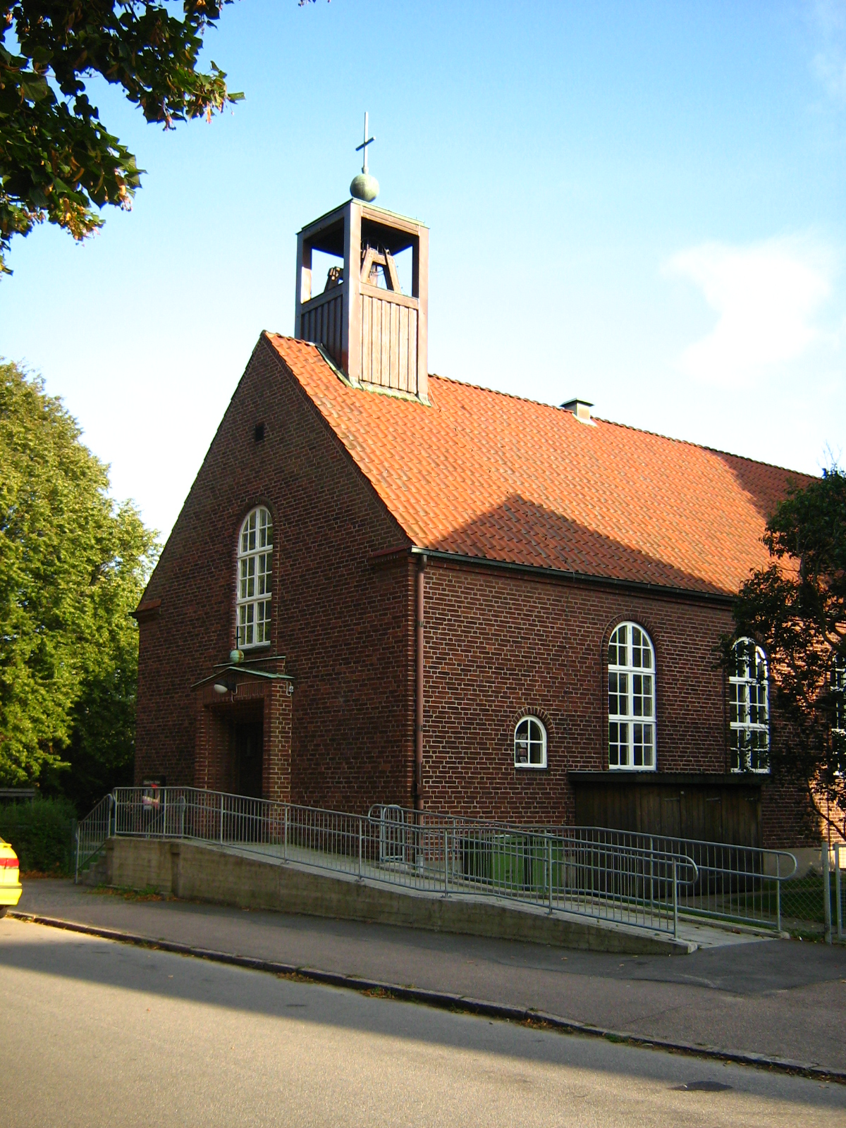 Olaus Petri kyrka in Halmstad, Sweden. Exterior in september.